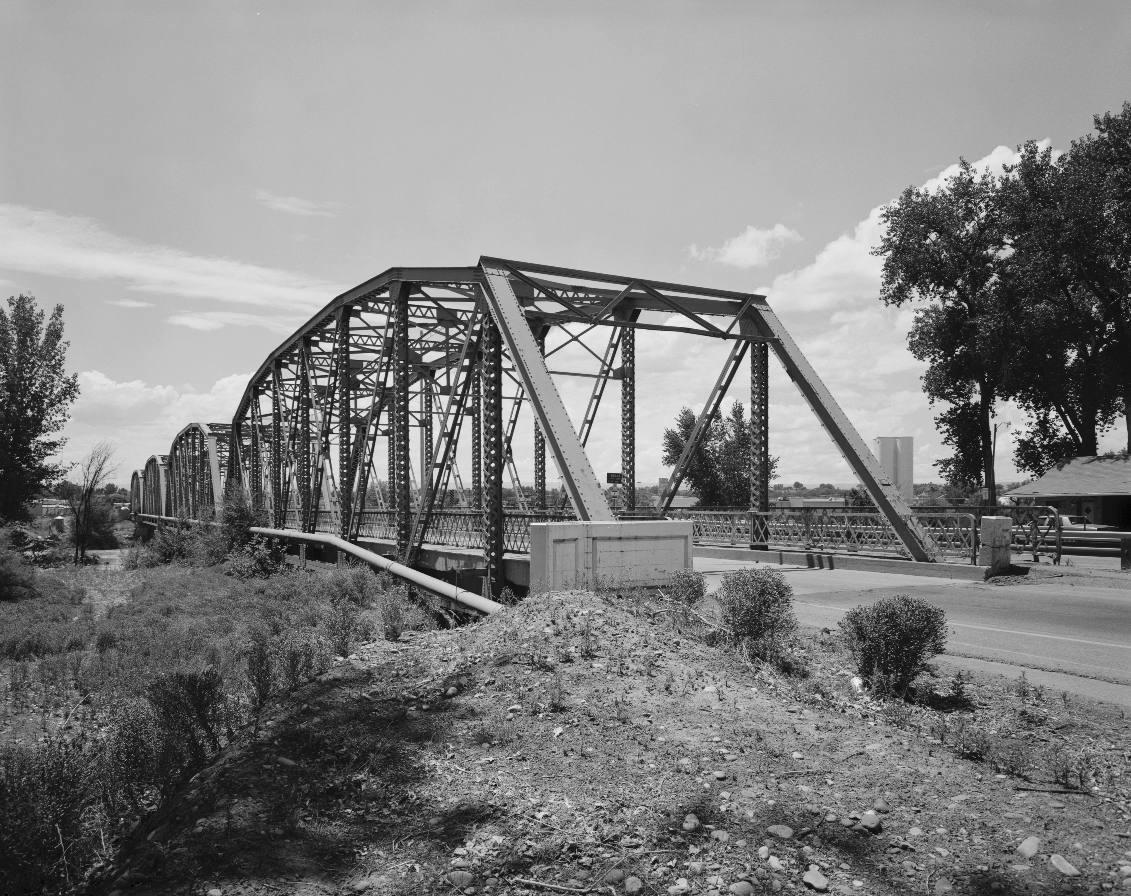 Delta Bridge, Spanning Gunnison River on U.S. 50, Delta (Delta County, Colorado)